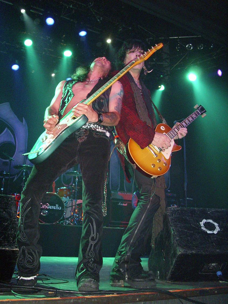 Jeff LaBar and Tom Kiefer of Cinderella playing a live show at Sala La Riviera Madrid on June 9, 2010.